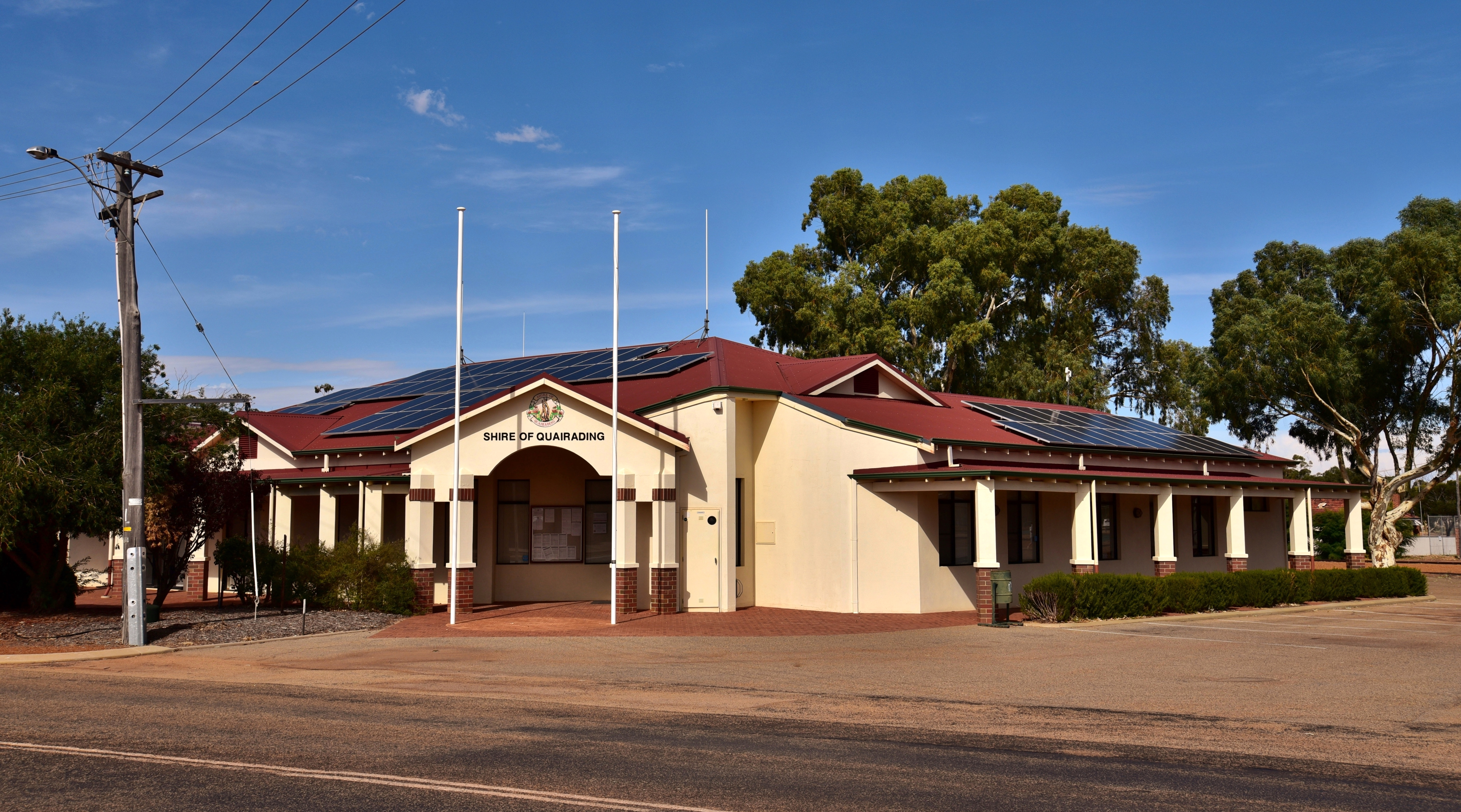 View of the offices of the Shire of Quairading, 10 Jennaberring Road, Quairading, Western Australia